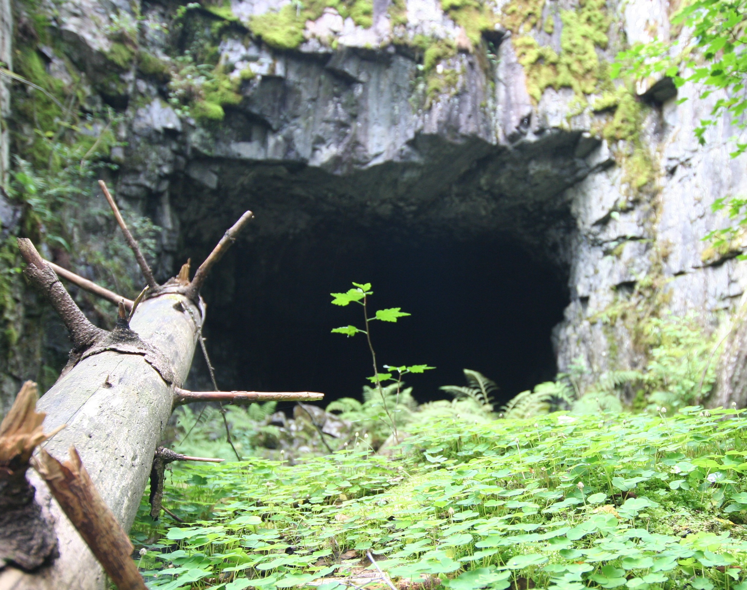 Mustavuori fortress ruins